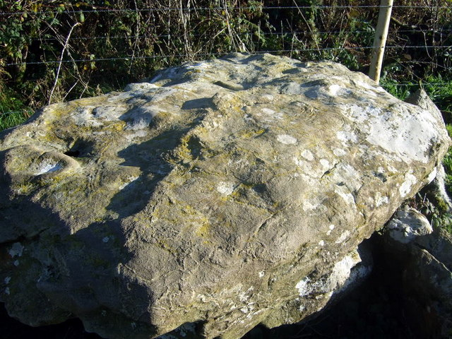 Parc-y-llyn capstone It has a smooth weathered surface that suggests it might once have been under water, but is mottled now with white and yellow lichen.